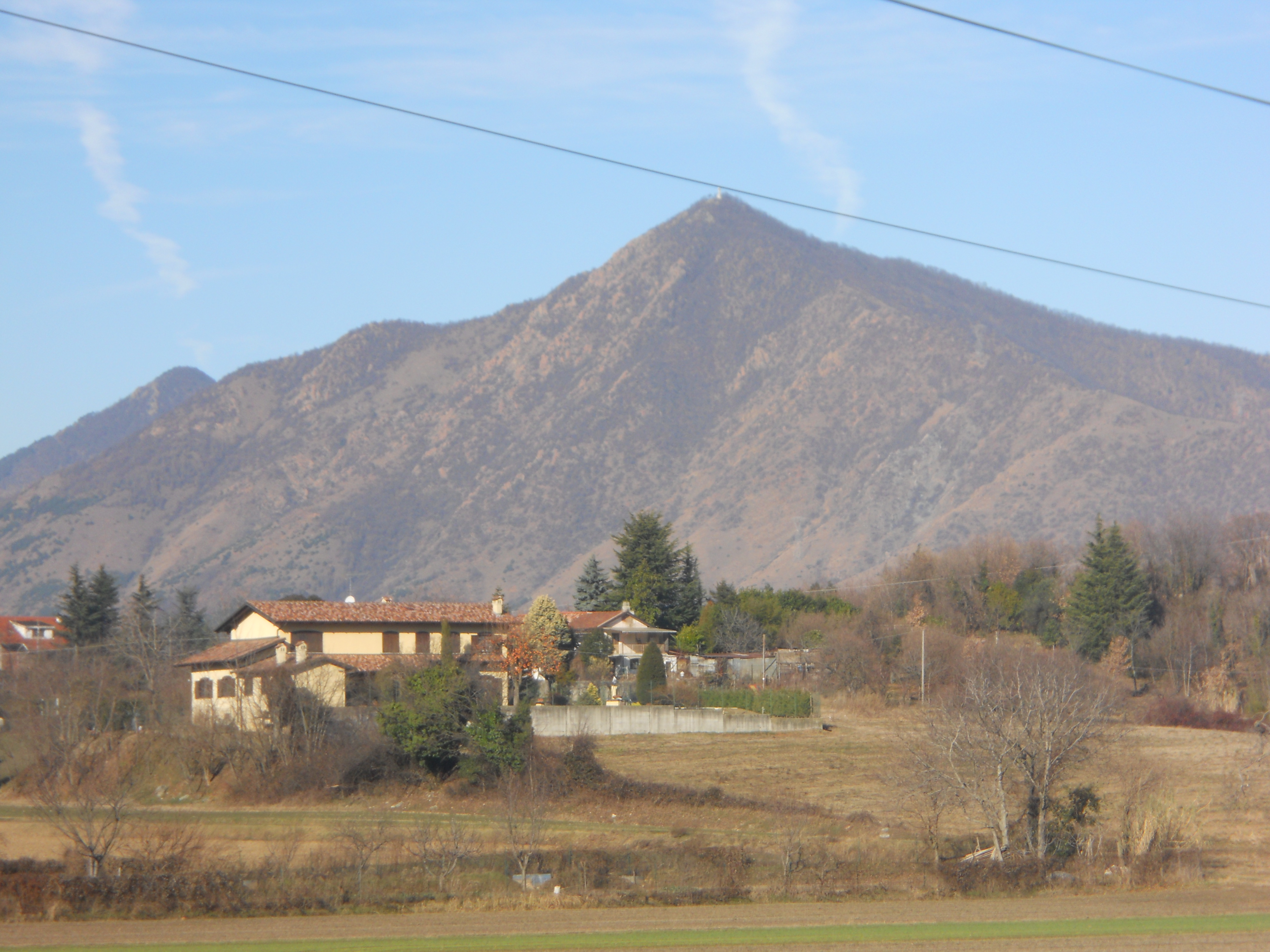 Mount Musinè from Rosta surroundings; on its left Mount Curt This is a photography of Natura 2000 protected area with ID IT1110081